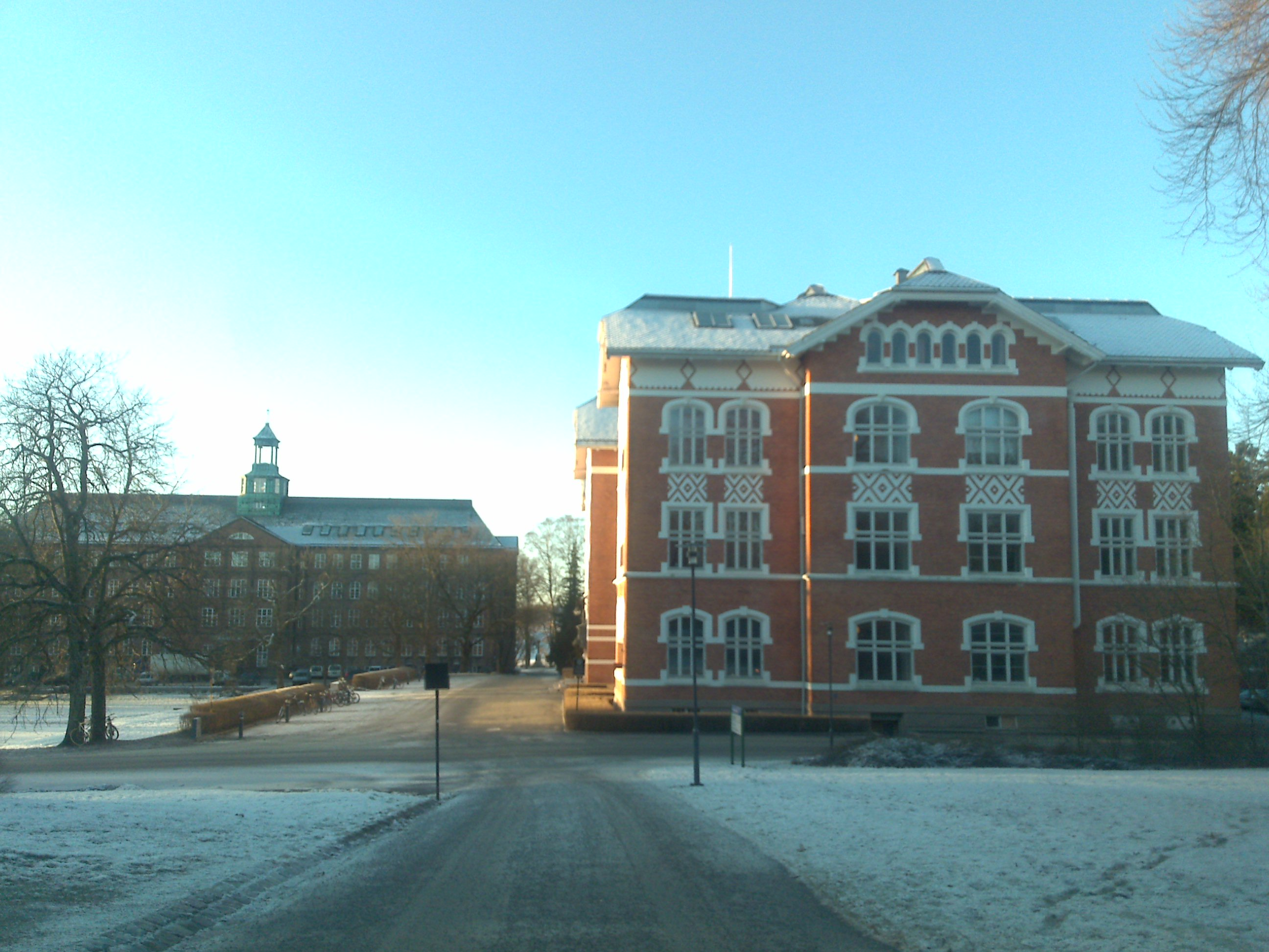 UMB Aas, Norway (University of Environmental and Earth Sciences, Norway